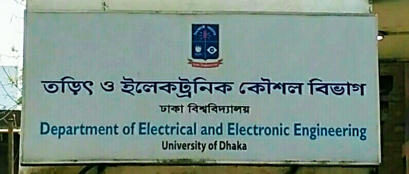 Name plate of Department of Electrical and Electronic Engineering, Curzon Hall, University of Dhaka. (29.03.2019)